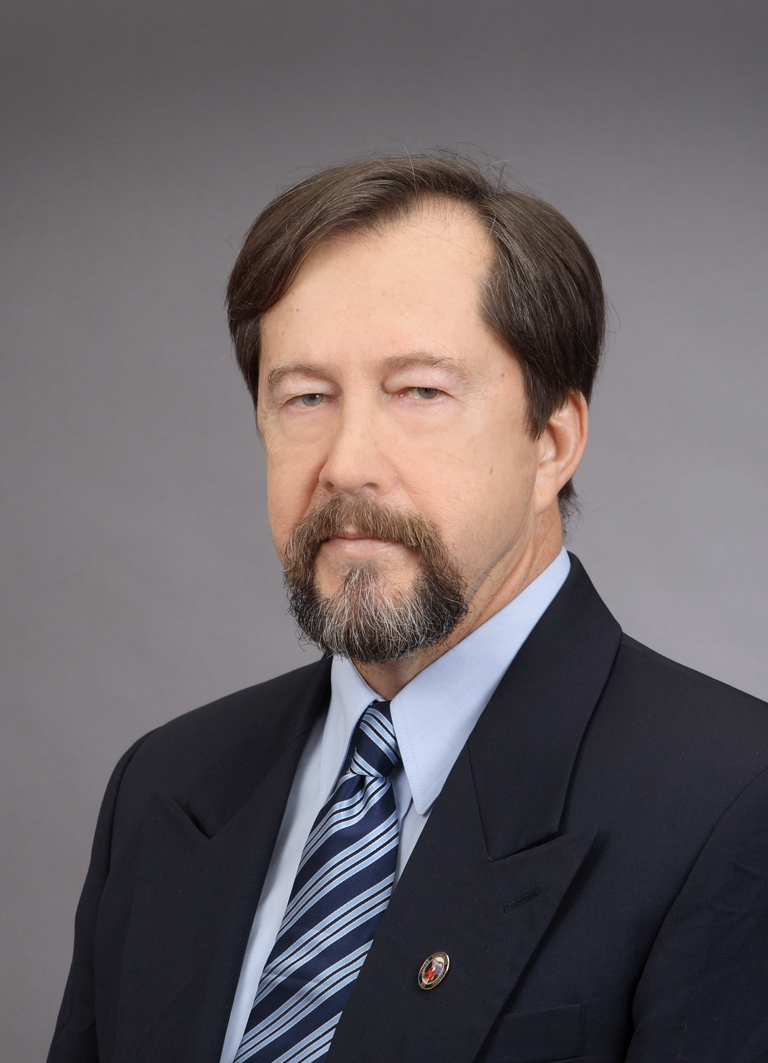 Prof. László Heszky, agronomist, plant genetist, biotechnologist, full member of the Hungarian Academy of Sciences